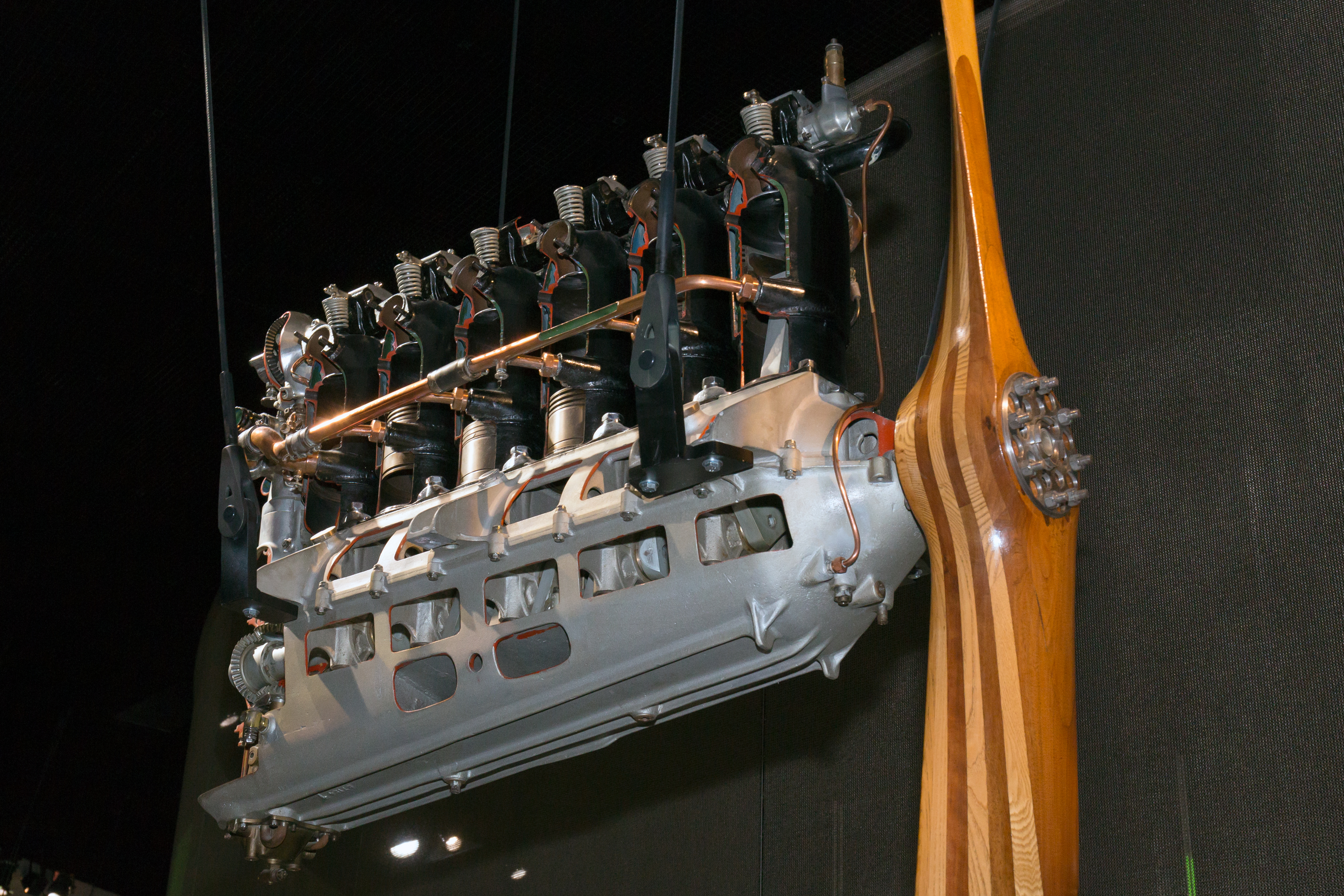 1915 Mercedes D.III aircraft engine